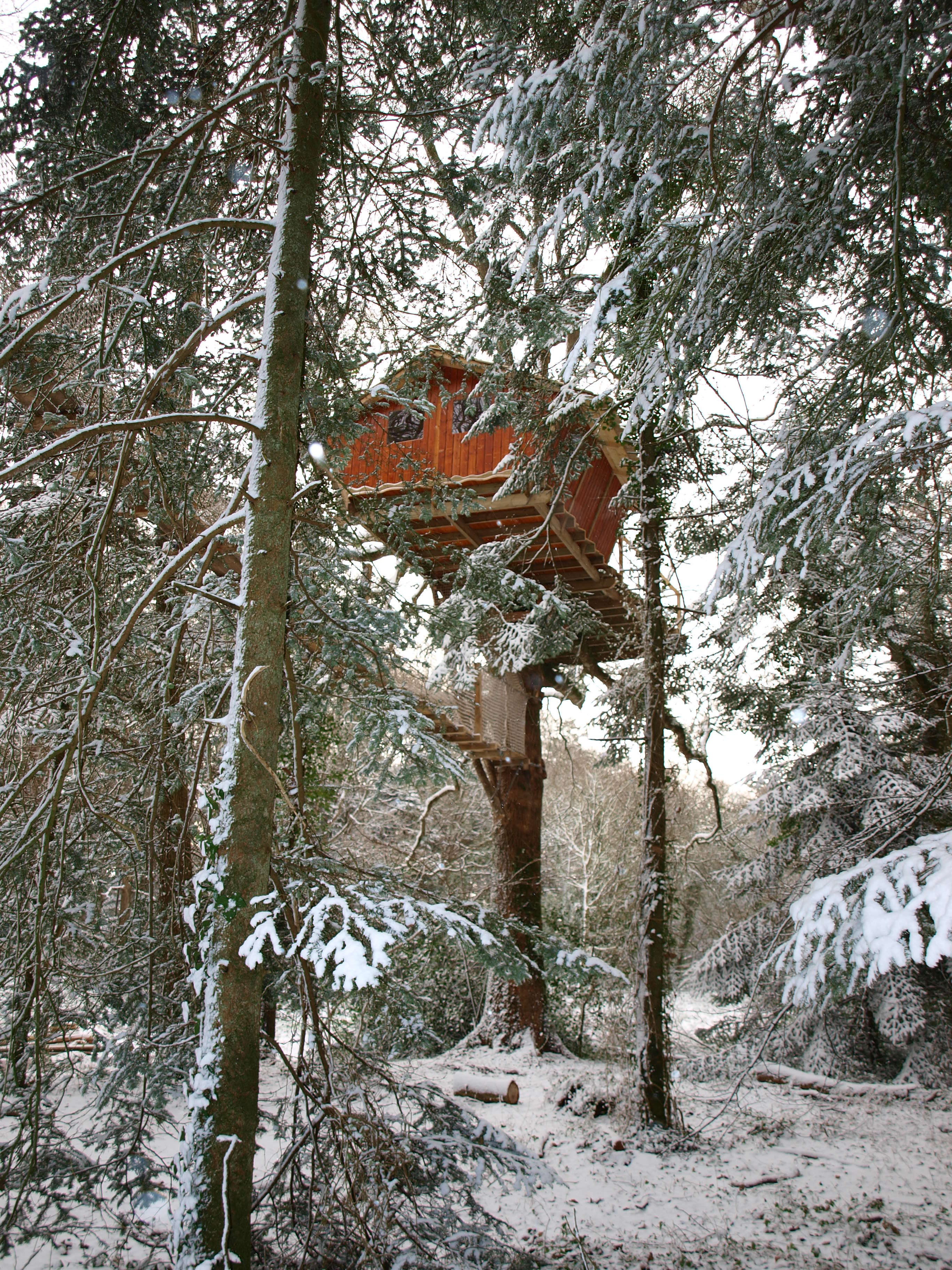 Tree house